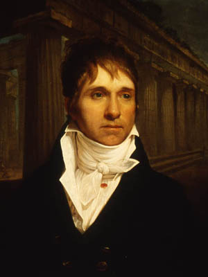 Portrait of William Short by Rembrandt Peale